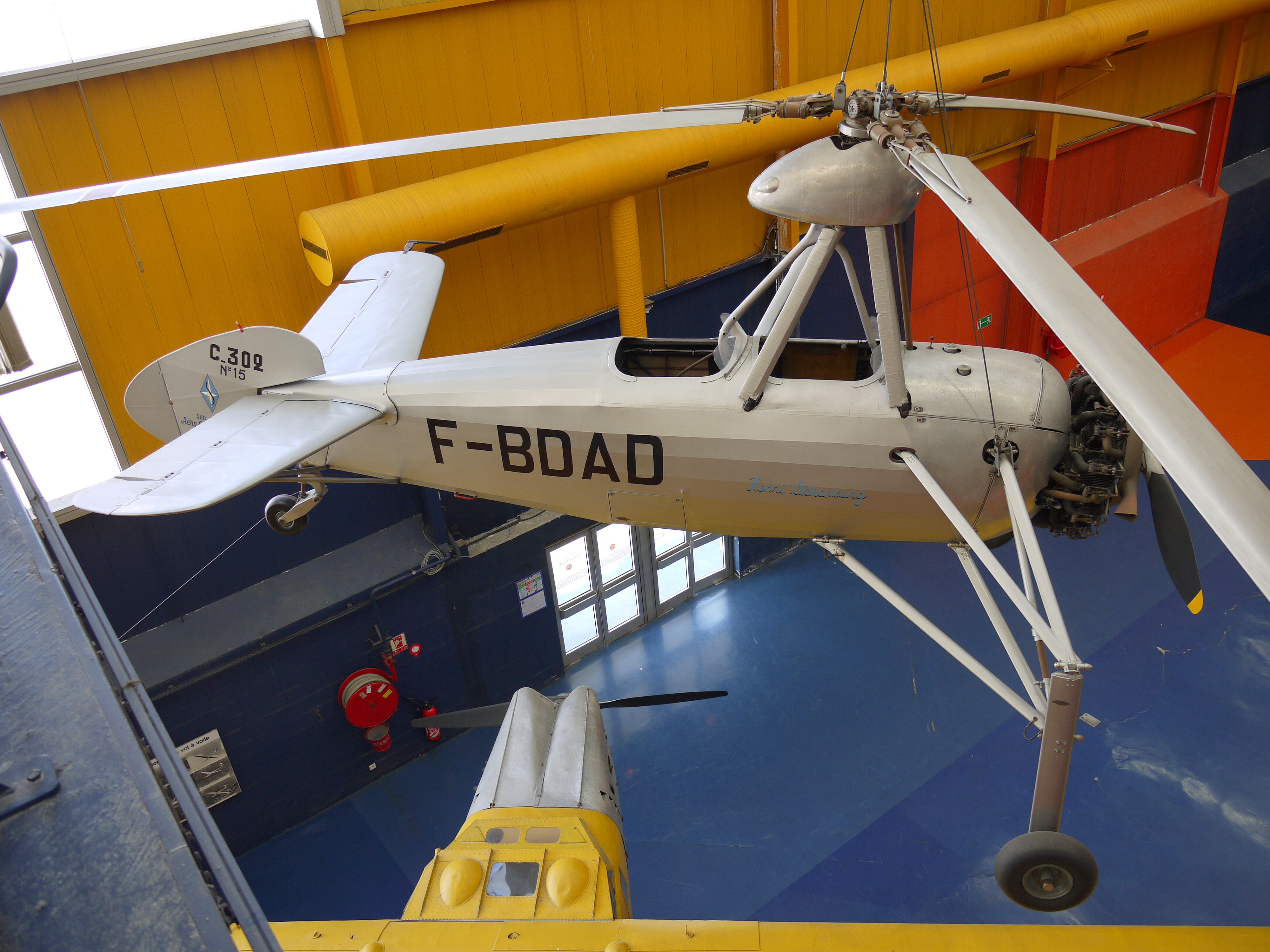 Lioré et Olivier C 302 autogiro (licence-built Cierva C.30)(F-BDAD), French Air and Space Museum (Musée de l'Air et de l'Espace), Le Bourget (France)